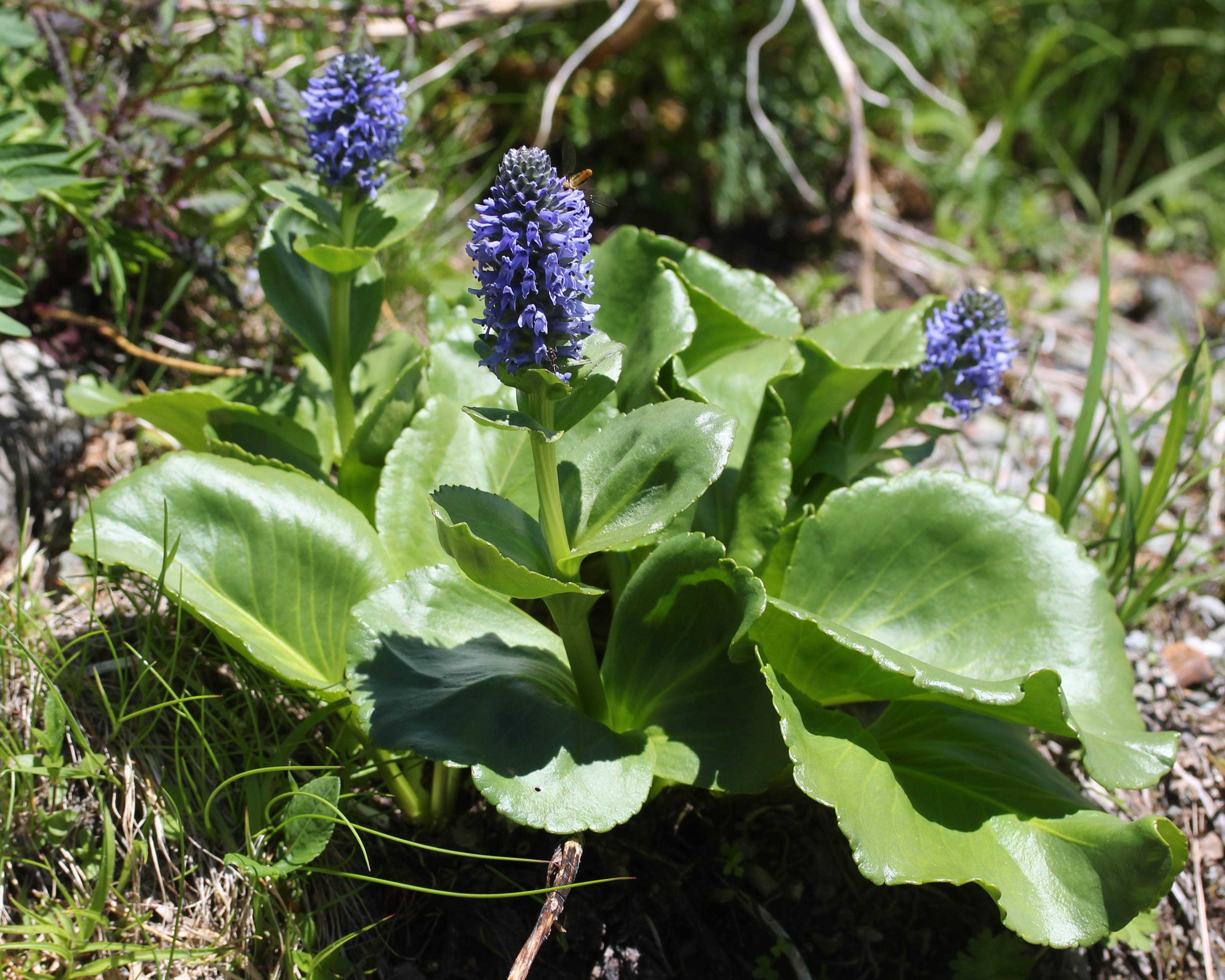 Lagotis glauca in Mount Shirouma, Hakuma, Nagano prefecture, Japan.